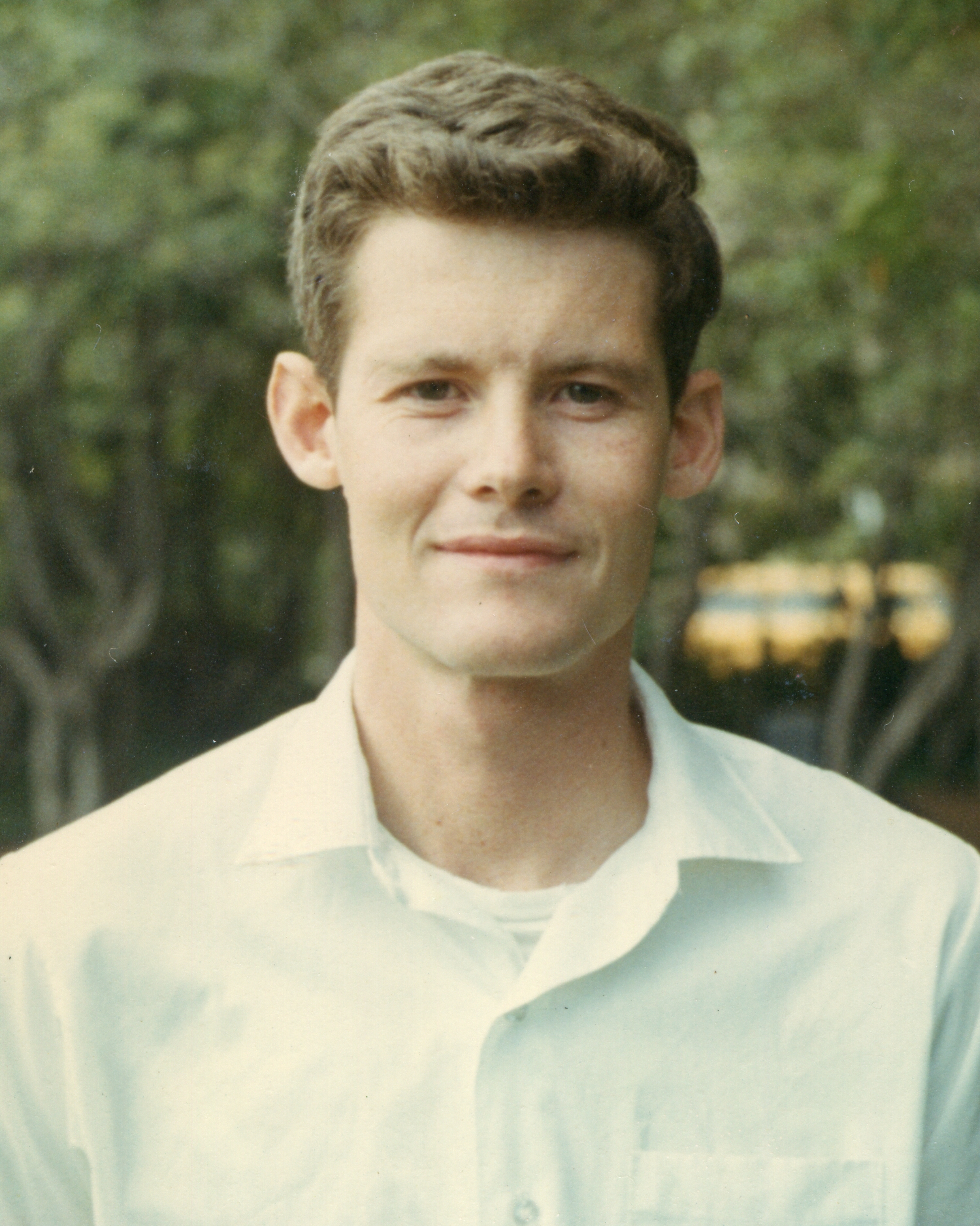 Stephen A. Cook at Berkeley, California in 1968; portion re-scanned with enlarged photo resolution